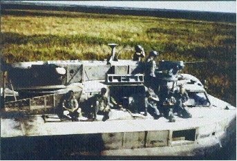 PACV during operation in the Plain of Reeds.